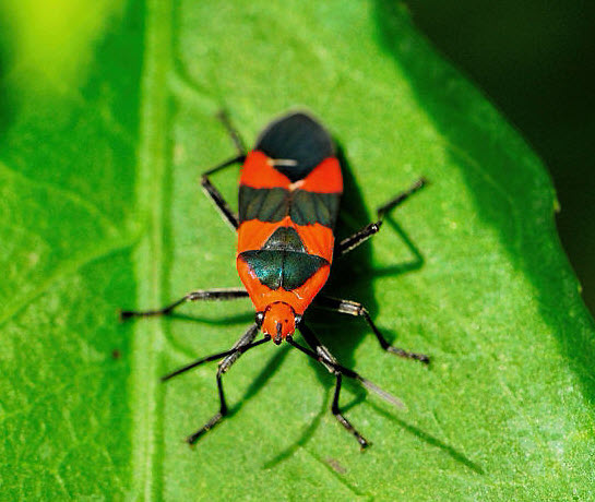 Milkweed bug (Oncopeltus sp.) in Miami, Florida, USA